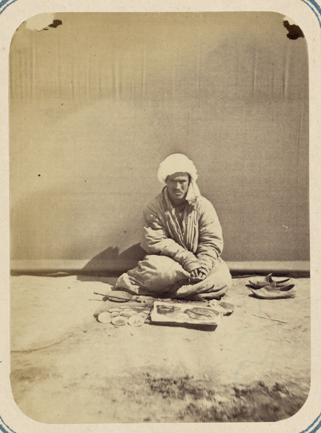 This photograph is from the ethnographical part of Turkestan Album, a comprehensive visual survey of Central Asia undertaken after imperial Russia assumed control of the region in the 1860s. Commissioned by General Konstantin Petrovich von Kaufman (1818–82), the first governor-general of Russian Turkestan, the album is in four parts spanning six volumes: “Archaeological Part” (two volumes); “Ethnographic Part” (two volumes); “Trades Part” (one volume); and “Historical Part” (one volume). The principal compiler was Russian Orientalist Aleksandr L. Kun, who was assisted by Nikolai V. Bogaevskii. The album contains some 1,200 photographs, along with architectural plans, watercolor drawings, and maps. The “Ethnographic Part” includes 491 individual photographs on 163 plates. The photographs show individuals representing the different peoples of the region (Plates 1–33); daily life and rituals (Plates 34–91); and views of villages and cities, street vendors, and commercial activities (Plates 92–163). Ethnographic photographs; Festivals; Folk festivals; Incense; Merchants; Photographic surveys; Ramadan; Turkic peoples